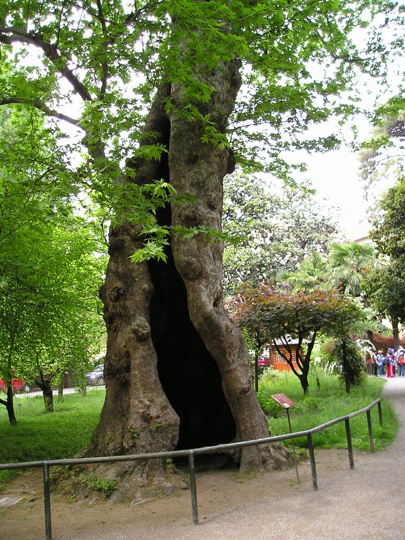 Hollow trunk of a plane tree (Platanus orientalis) planted in 1680 in the Botanical Garden of Padua.